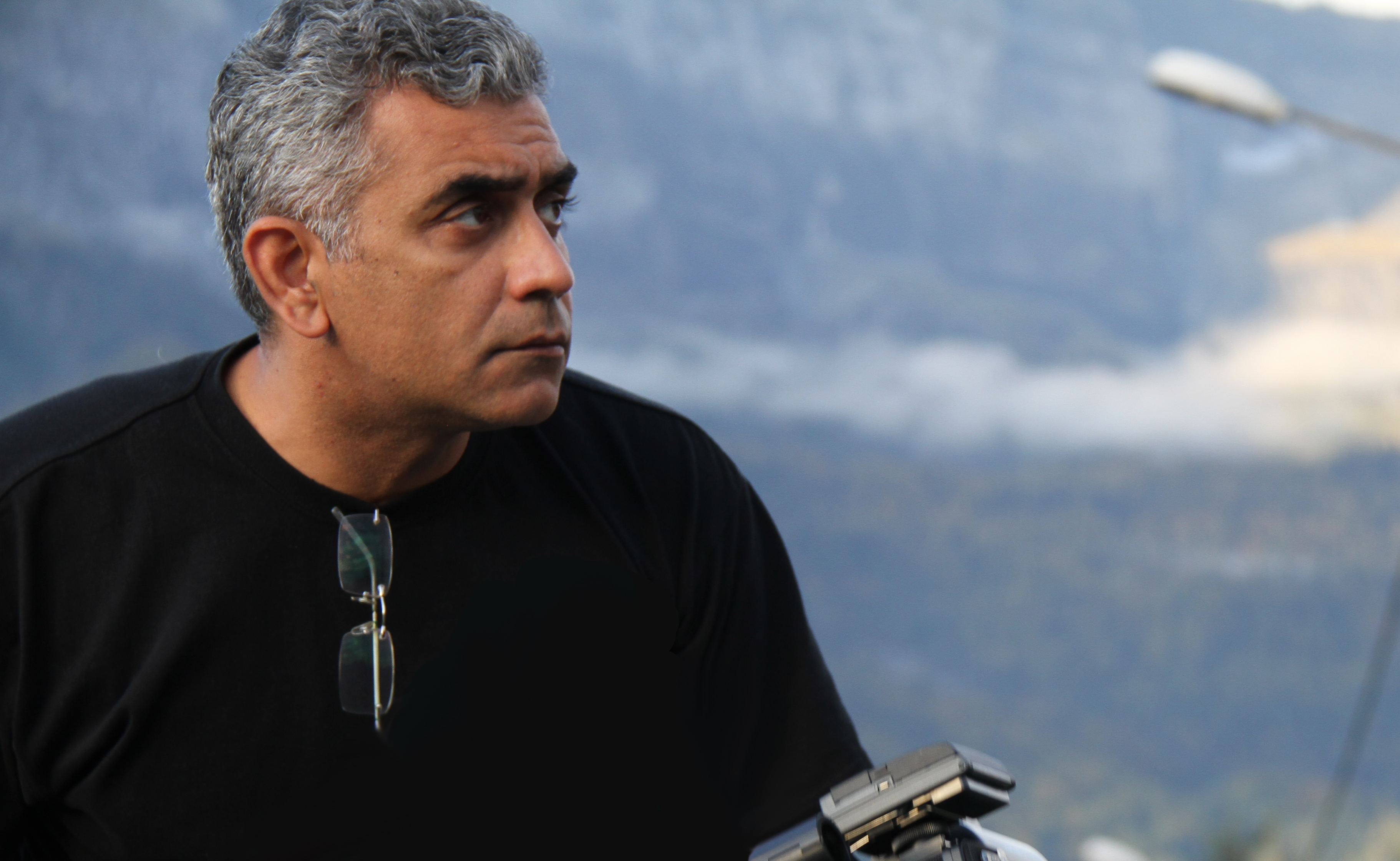 Le Fayet, France